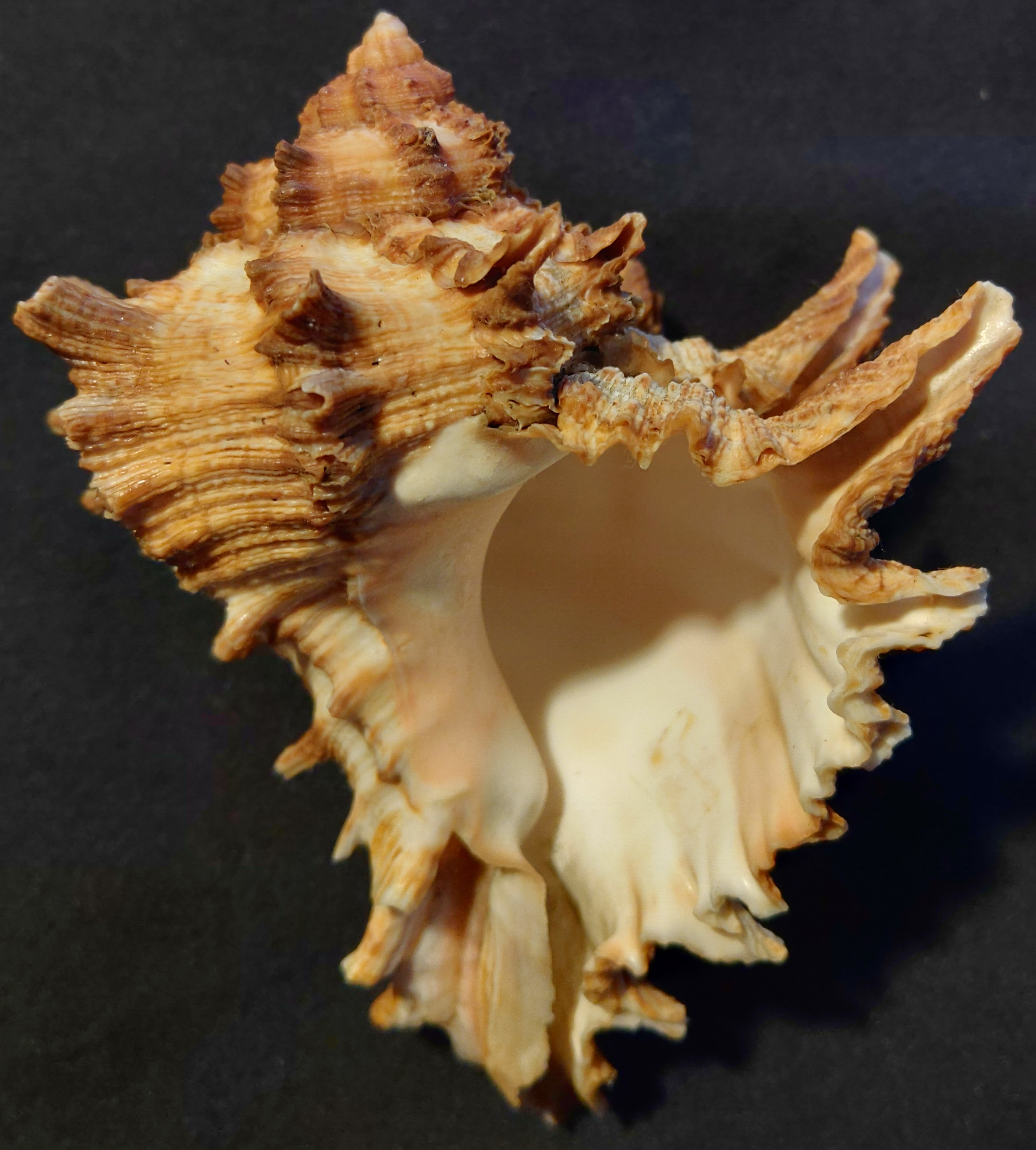 Hexaplex Duplex Front